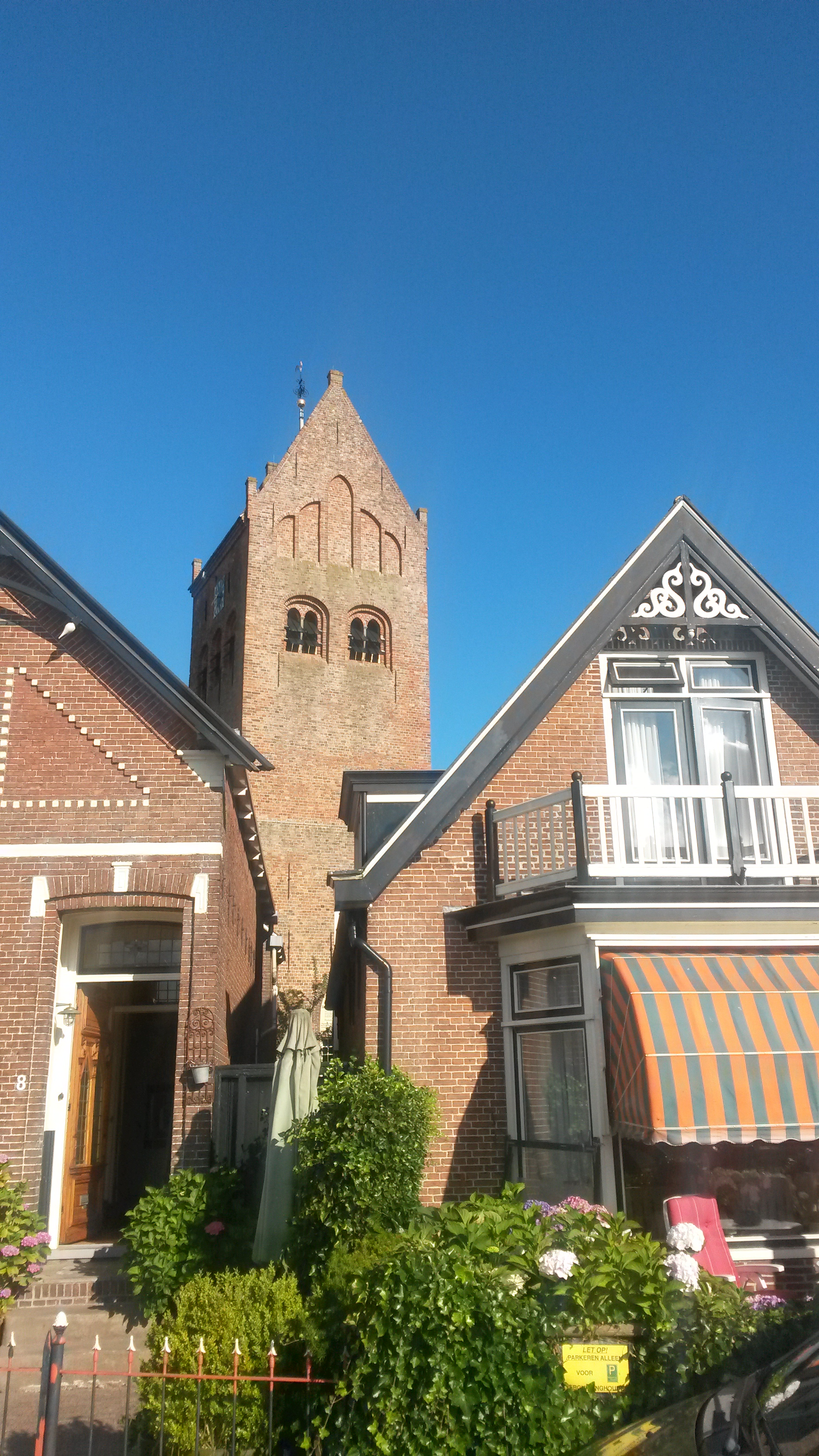 Houses in Grou (province of Fryslân, the Netherlands) with St. Peter's church in the background